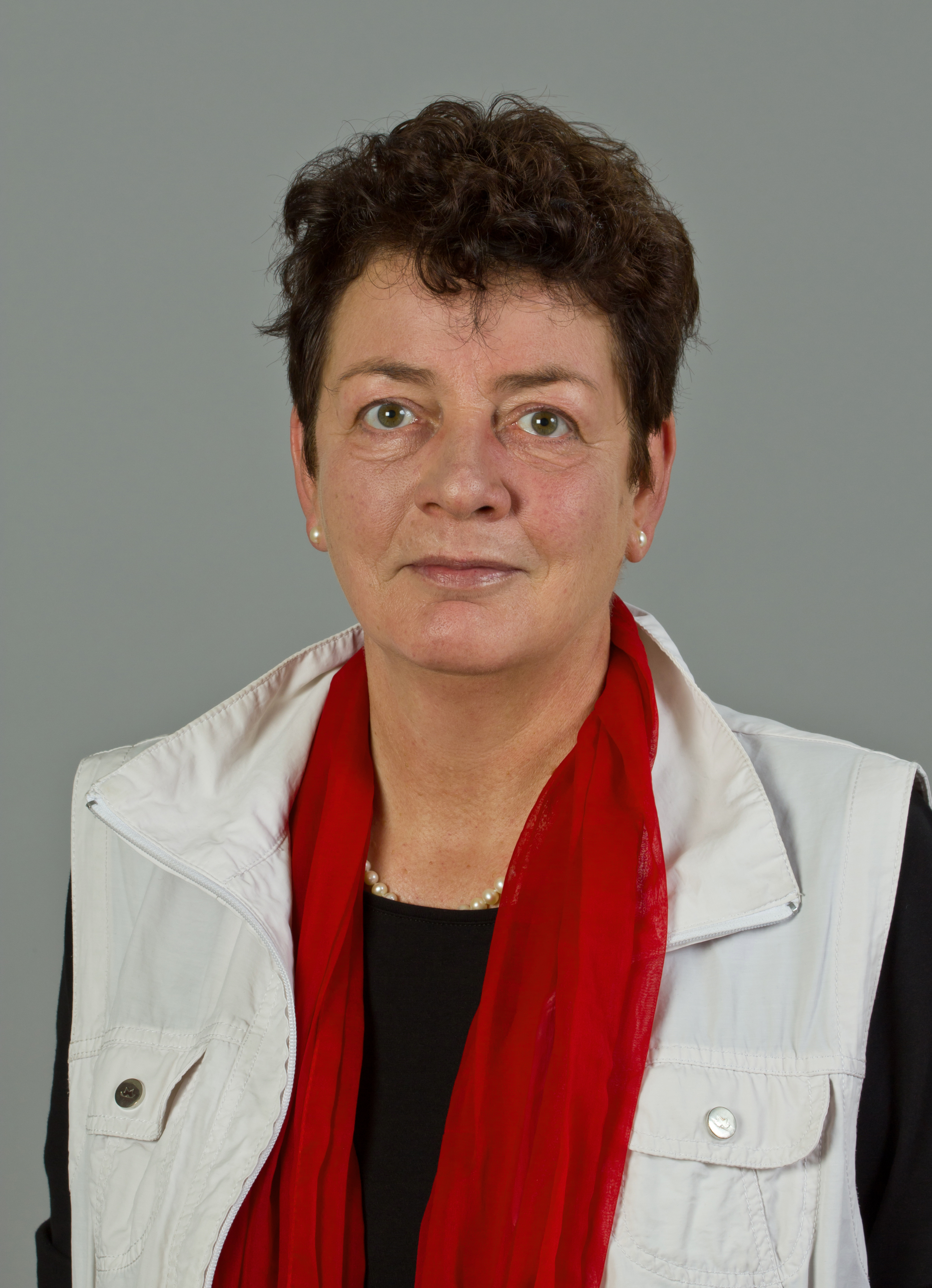 Kirsten Flesch, politician from Germany, member of Abgeordnetenhaus of Berlin (as of 2013)